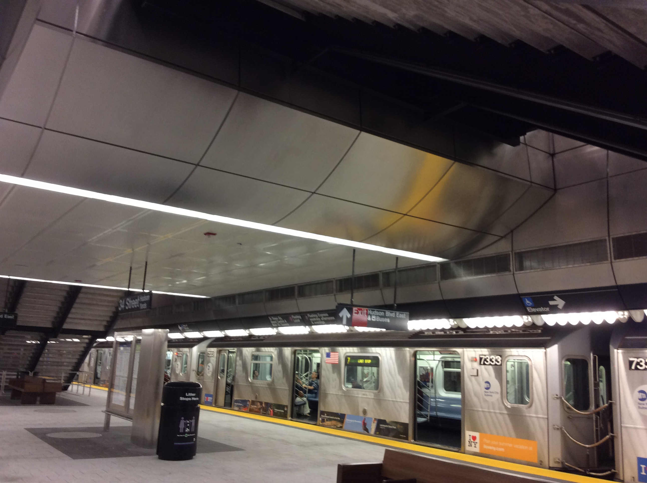 The 34th Street-Hudson Yards subway station, September 16, 2015